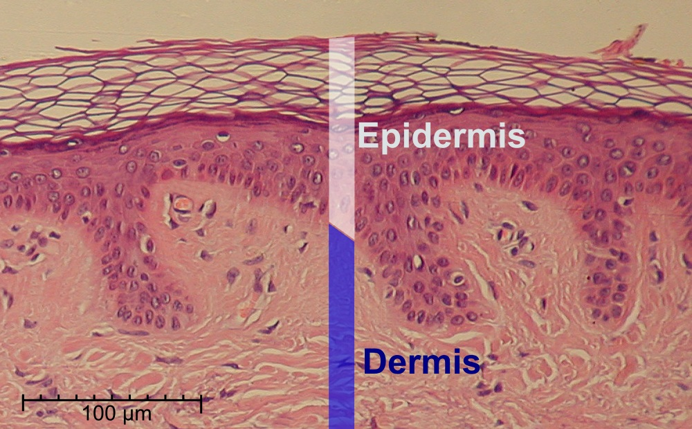 This is a hematoxylin and eosin stained slide at 10x of normal epidermis.